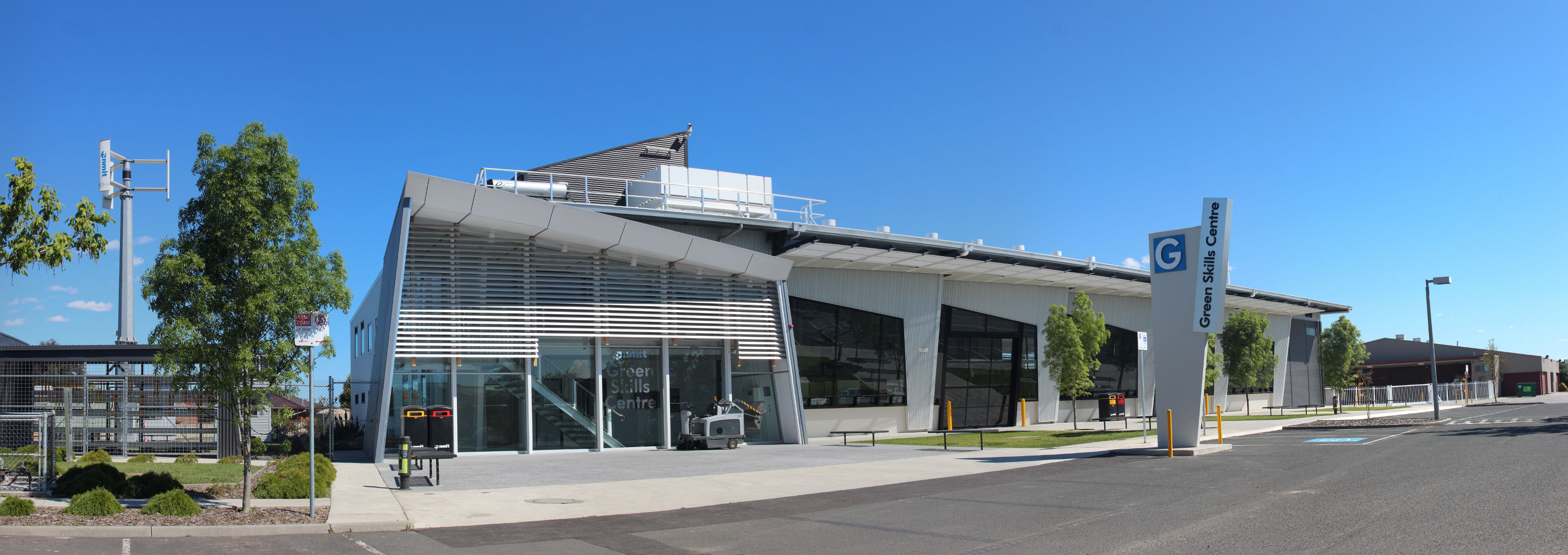 The building was federally funded in 2009 ($9.5million), designed by Architects Blomquist and Wark to be a '5 star' environmentally designed state of the art building for delivering of courses in renewable energy and sustainable building design and construction practices. The building includes Geothermal heat pump for heating and cooling; solar panels (25 kW); Rainwater harvesting and recycling; green concrete with low cement content; and Forest Stewardship Council (FSC) timber. Eighty per cent of the construction waste was recycled. Six images in portrait mode at 37mm. Field of View (FOV) 100 degrees. Stitched together using Hugin Panorama Photo Stitching software running on Ubuntu Linux